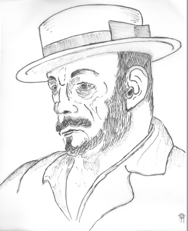 Drawing in pen of G. Baermann based on a painting by unknown painter.